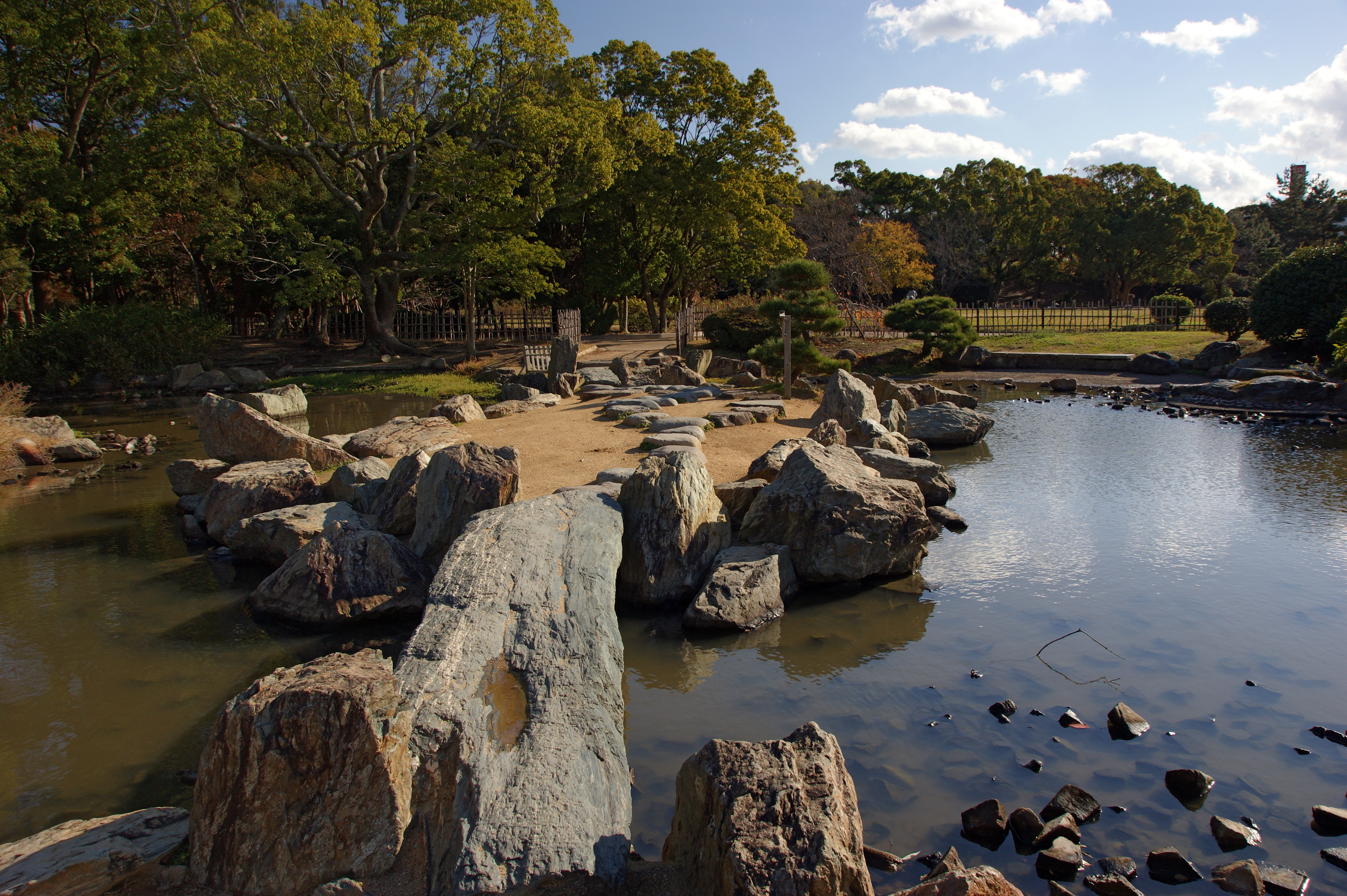 Akashi Castle (Akashi Park), Akashi, Hyogo prefecture, Japan